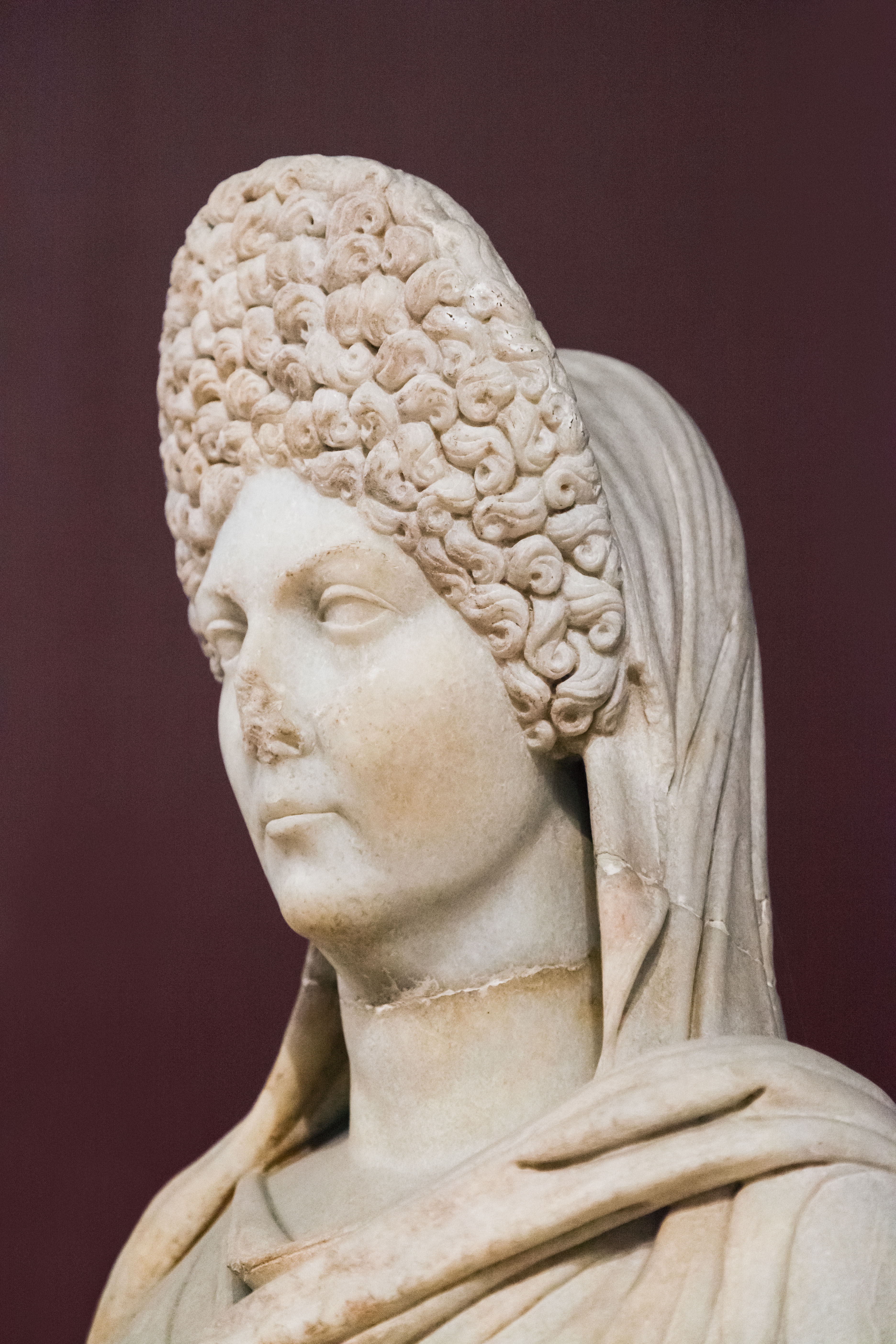 Statue (detail) of a Roman woman, Archaeological Museum of Istanbul, Turkey.